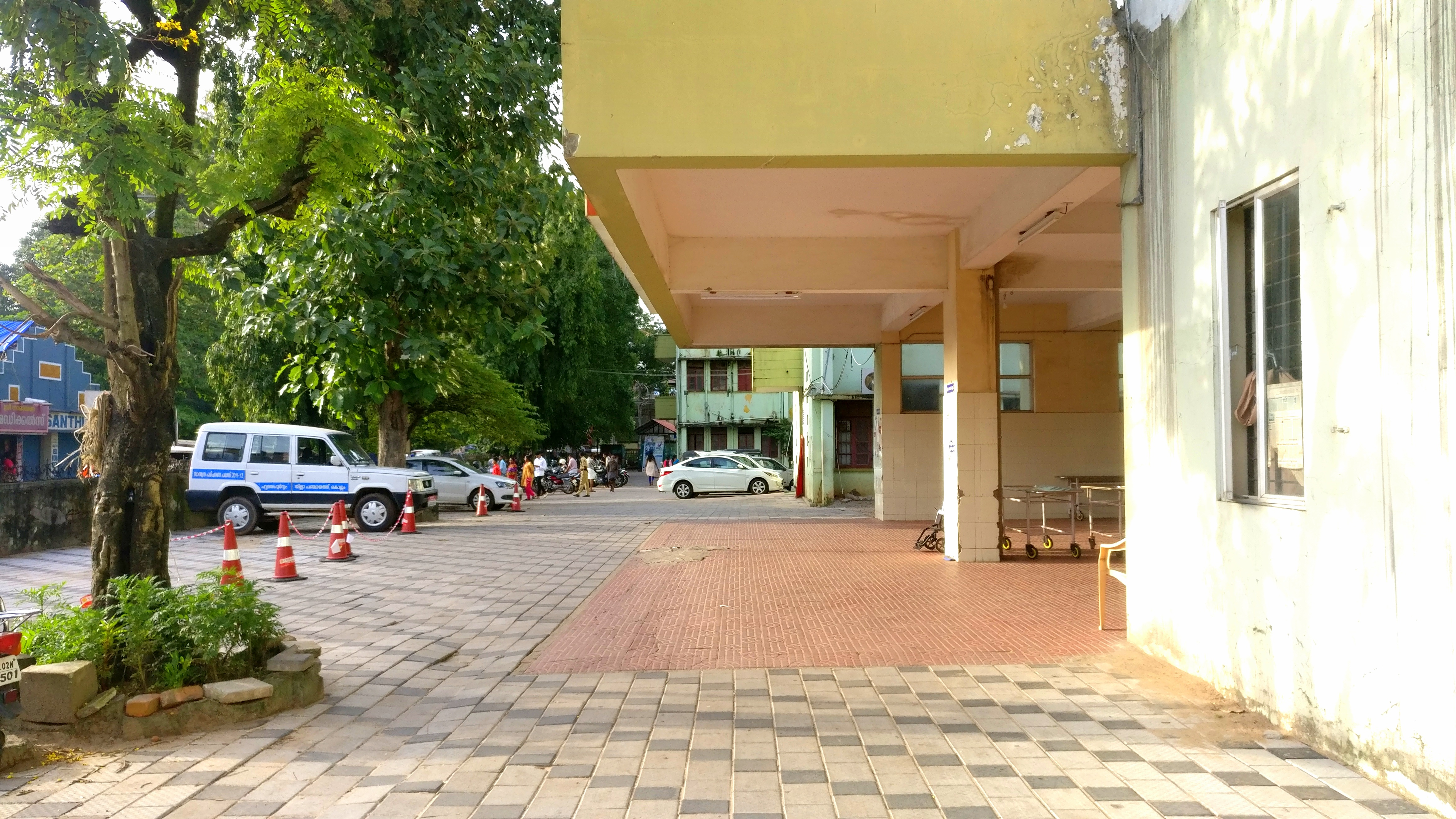 Government District Hospital is one of the specialty hospitals located in Kollam city, India